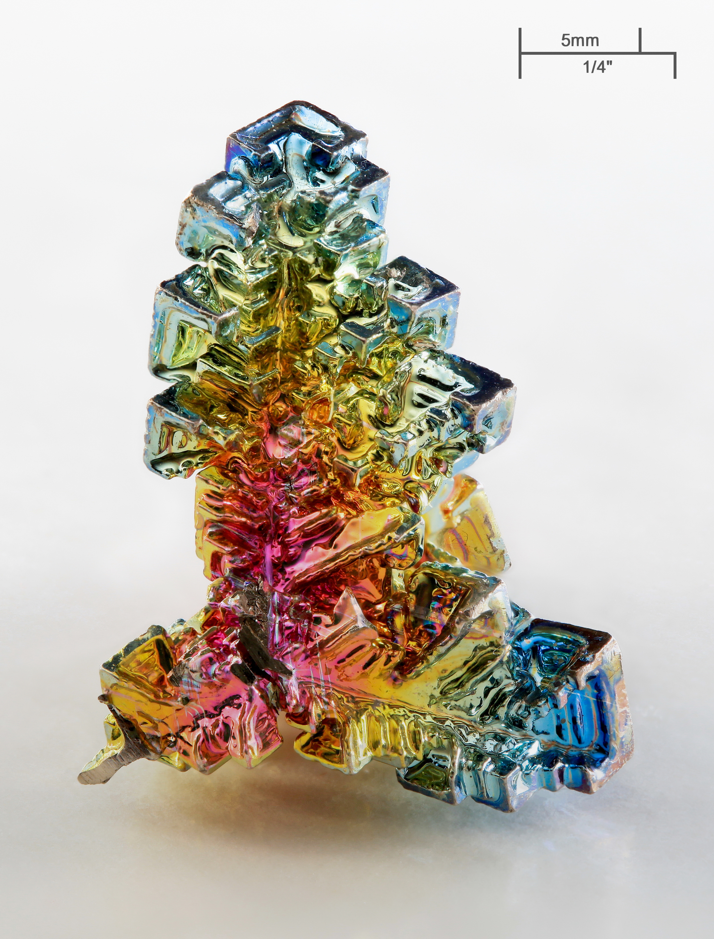 The chemical element bismuth as a synthetic made crystal. The surface is an iridescent very thin layer of oxidation.